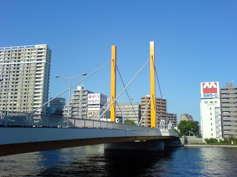 Shinohashi bridge in Tokyo